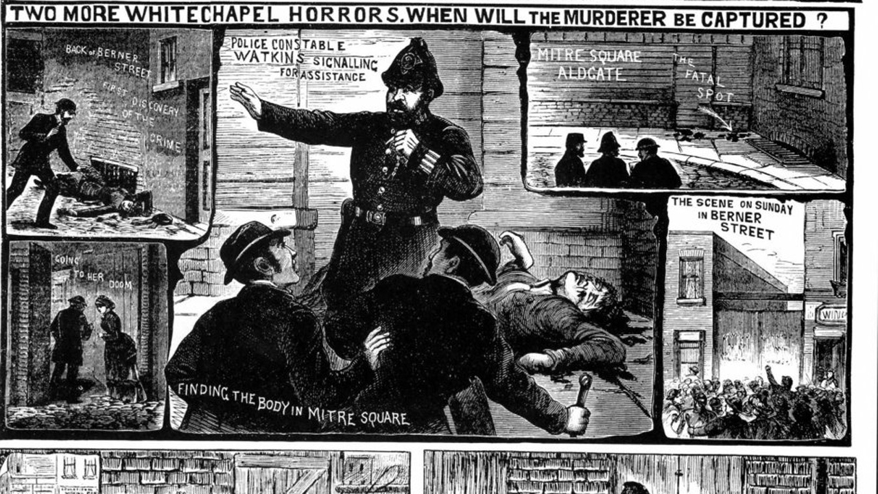 The Illustrated Police News - 6 October 1888 - Two more Whitechapel Horrors